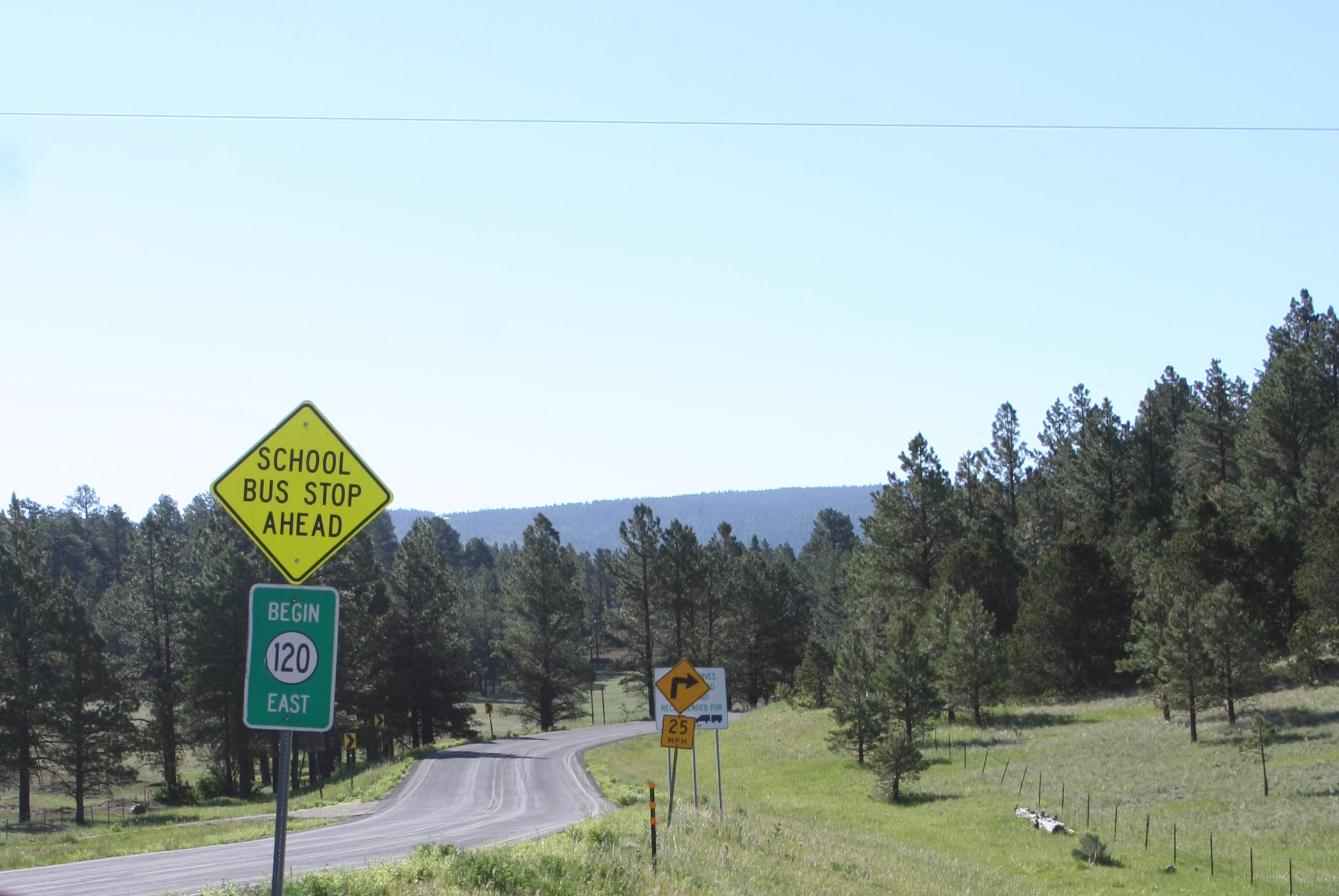 NM Hwy 120 begins near Angel Fire and Black Lake